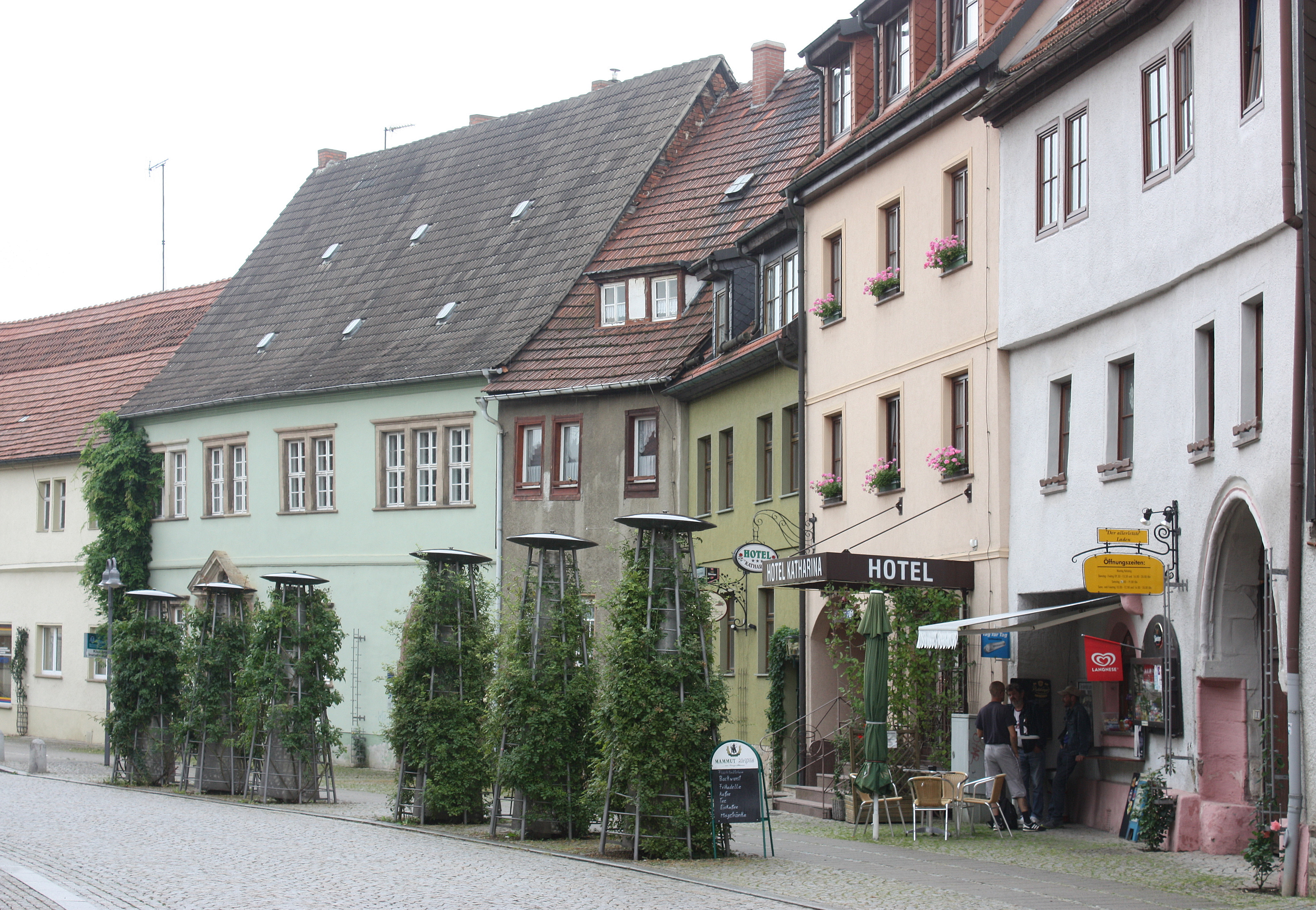 Sangerhausen, a raw of houses at the Riestedter Straße This is a photograph of an architectural monument. 84265